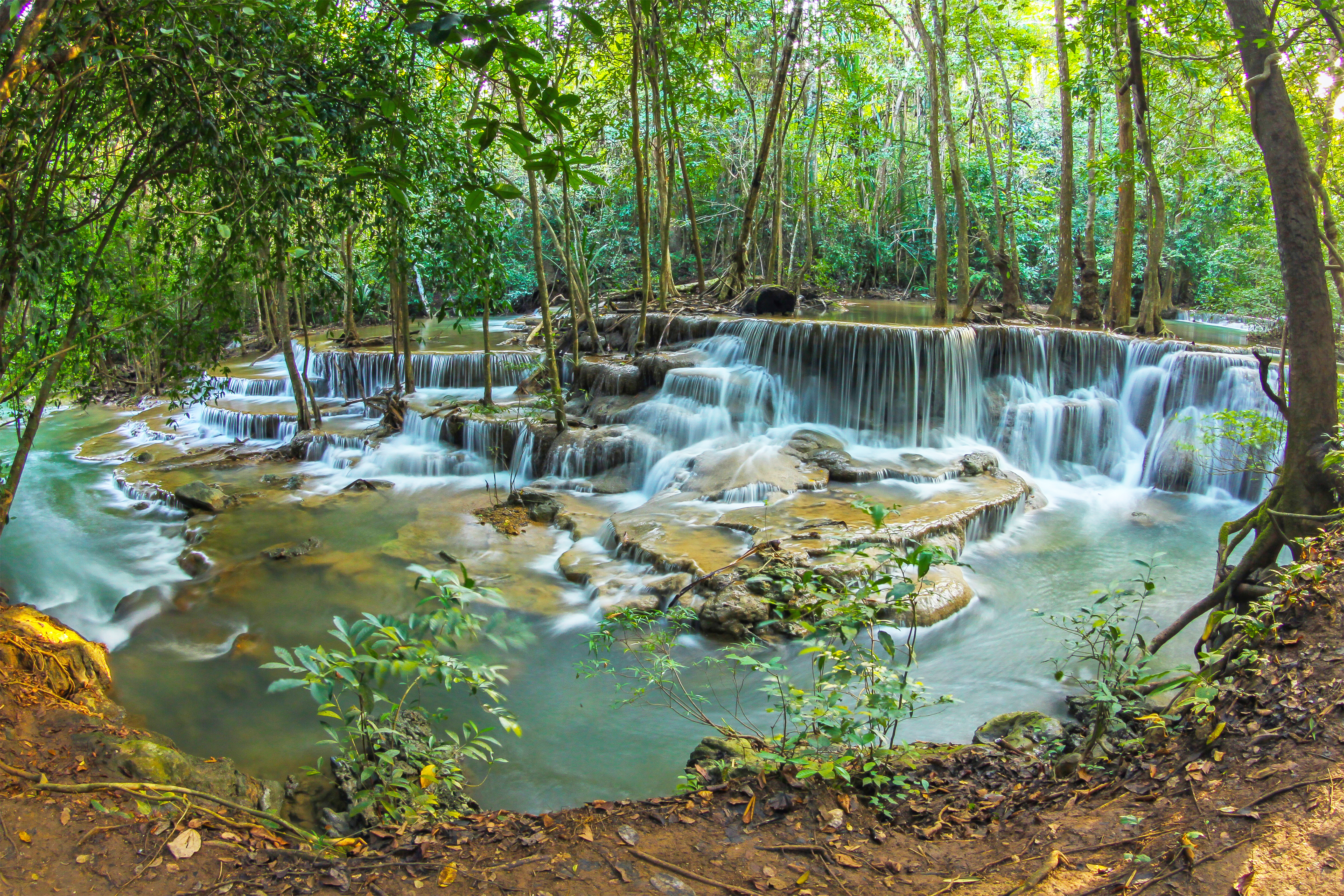 Huai Mae Khamin Waterfall, Khuean Srinagarindra National Park, Kanchanaburi Province